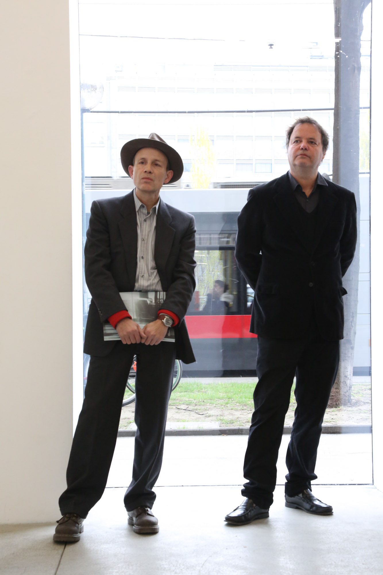 Clegg & Guttmann in BAWAG Contemporary (April 2012), Vienna, AT)